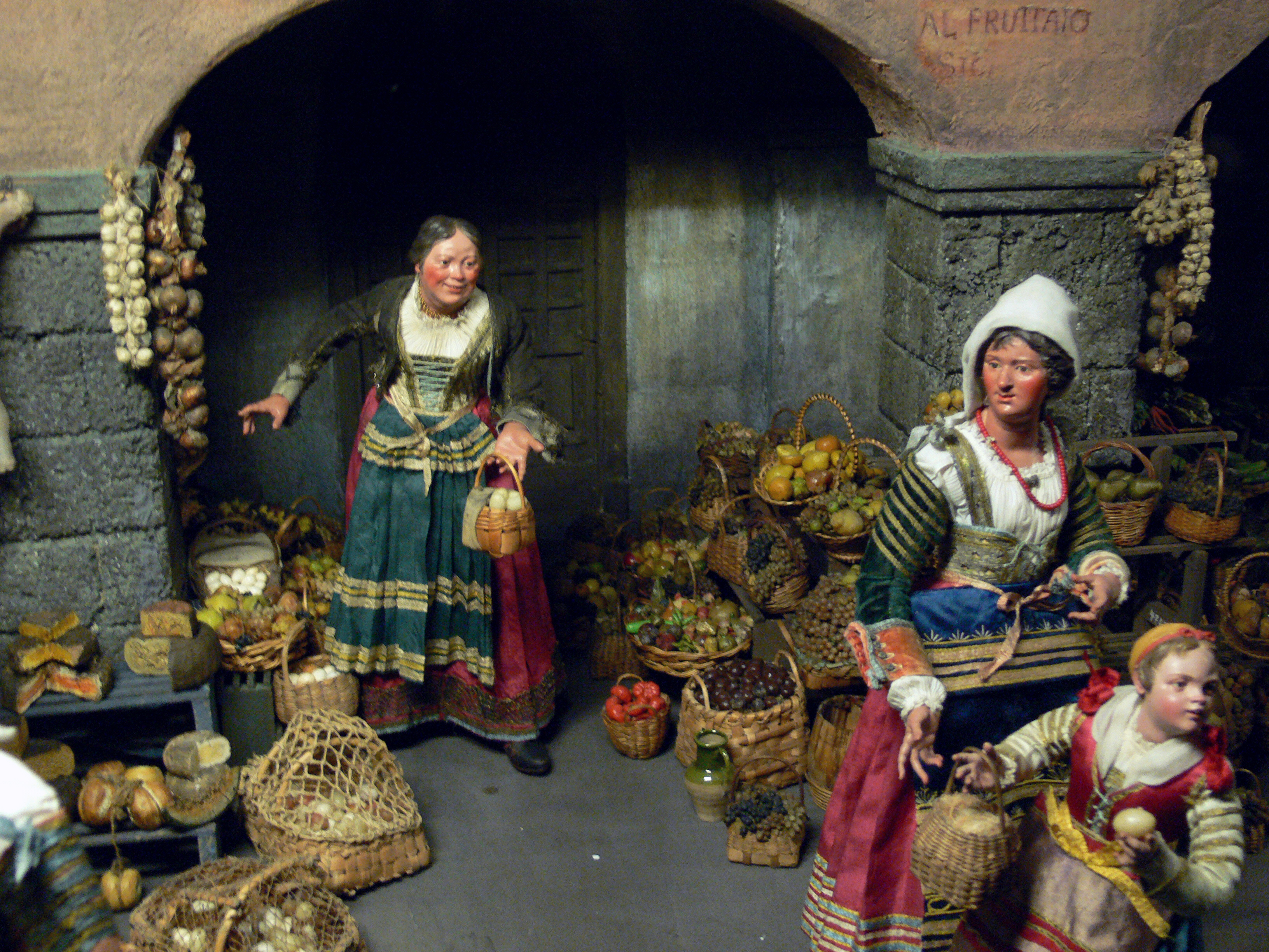 Street scene with market, from Naples, 2nd half of the 18th century. Krippensammlung des Bayerischen Nationalmuseums (Collection of nativity scenes at the Bavarian National Museum), Munich, Germany.